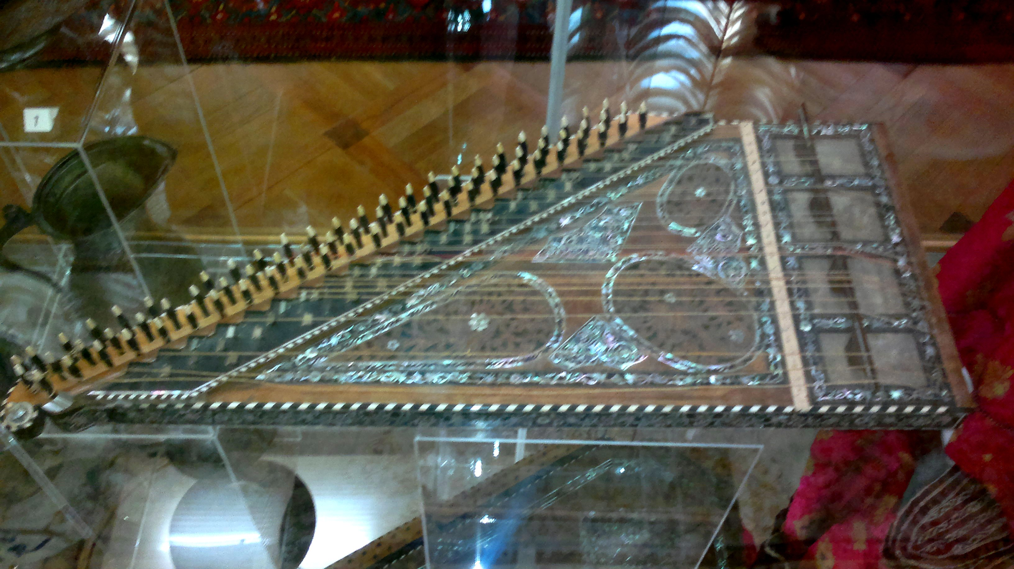 Ganun (musical instrument) from Erivan Khanate in Museum of History of Azerbaijan